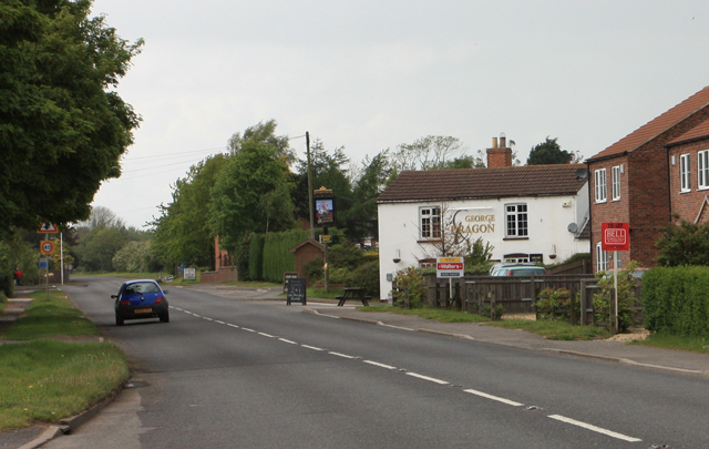 The George and Dragon, Hagworthingham